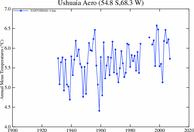 Graph of 1931-2007 air average temperature of Airport of Ushuaia, Argentina.